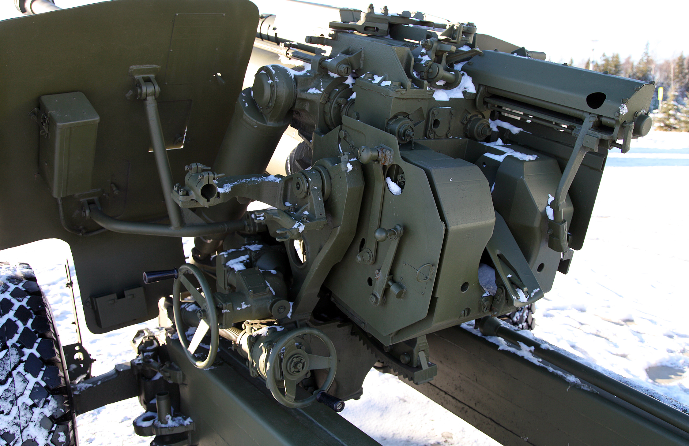 152mm howitzer 2A85 Msta-B